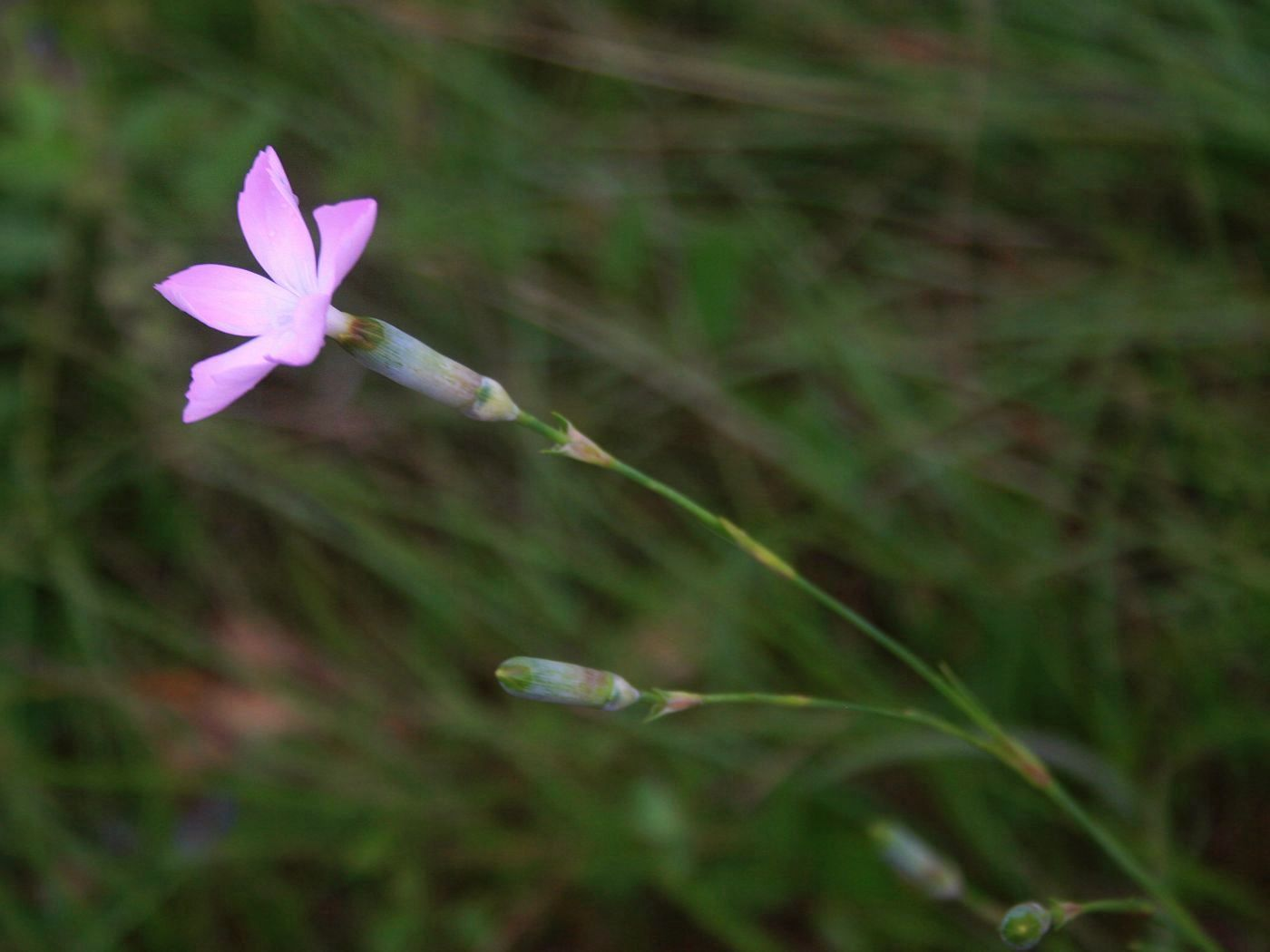 Dianthus sylvestris subsp. tergestinus, Nelkengewächse (Caryophyllaceae) - Slowenien/Slovenija/Slovenia: Primorska, an der Straße ca. 2,5 km NW Podgorje